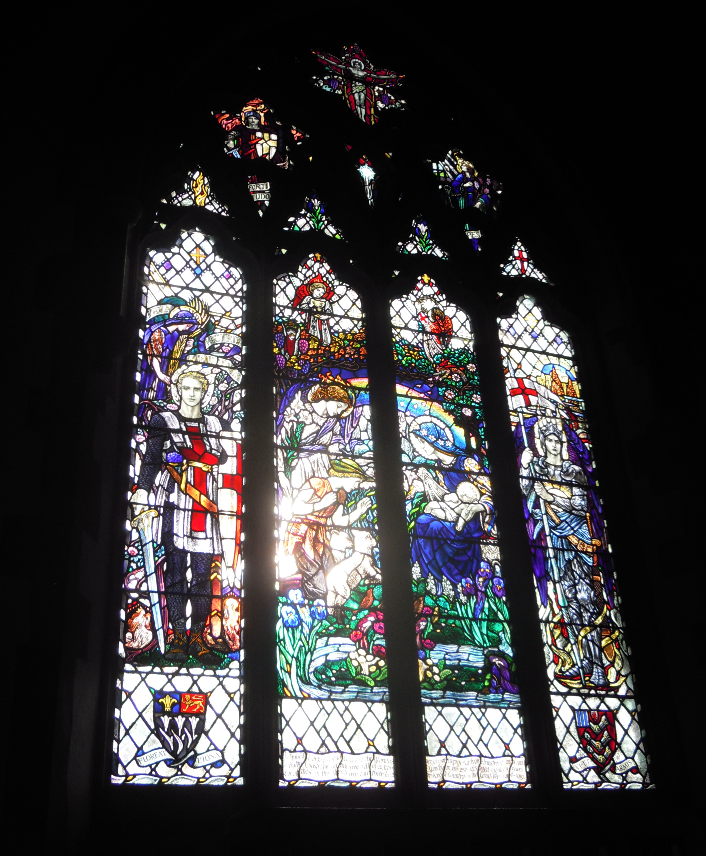 James the Less, church in Pangbourne, England. Window from the inside. Arms of Eton College and Armstrong Baronets (Gules, three arms in armour embowed in pale proper a canton paly of seven argent and azure) Motto: Vi et Armis ("by force and arms"). Text from: [1] "The most notable feature is the east window, predominantly a nativity scene, surmounted by a Crucifixion and with supporters and allegorical details. It was commissioned from Karl Parsons by Sir George and Lady Armstrong in memory of their son and a nephew who died in World War I. In 1992 the angel’s head featured on the second class Christmas postage stamp. "